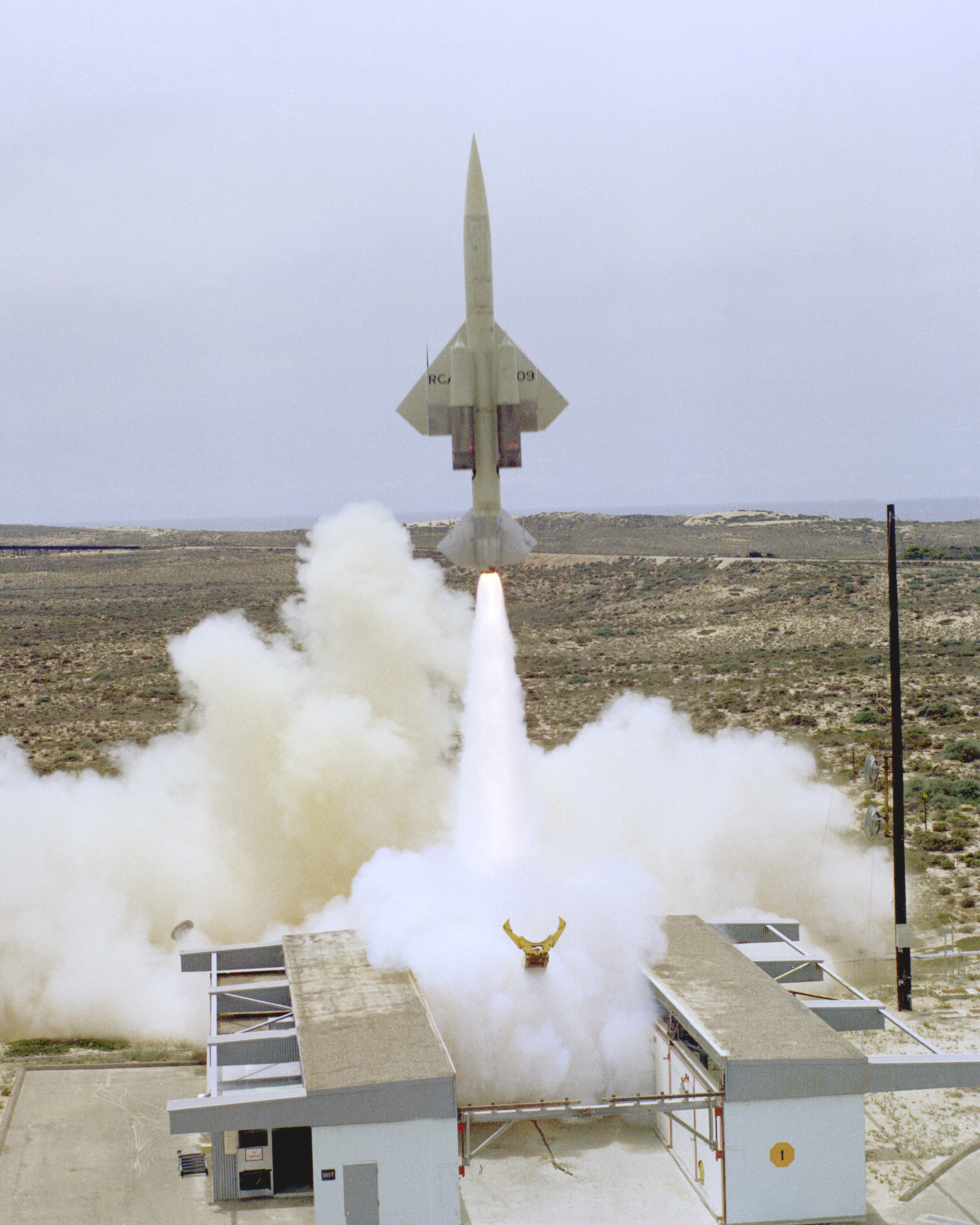 A U.S. Air Force CQM-10B Bomarc B target drone being launched at Vandenberg Air Force Base Launch Complex BOM1, California (USA), on 1 May 1977. The missile seems to be a former Royal Canadian Air Force CIM-10B, USAF s/n 60-0909.